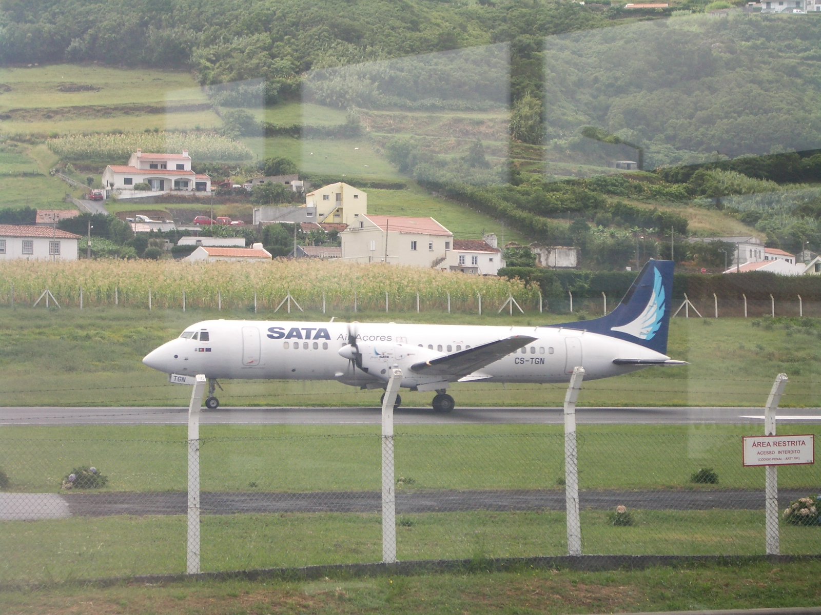 Sata Air Acores BAe ATP (CS-TGN)